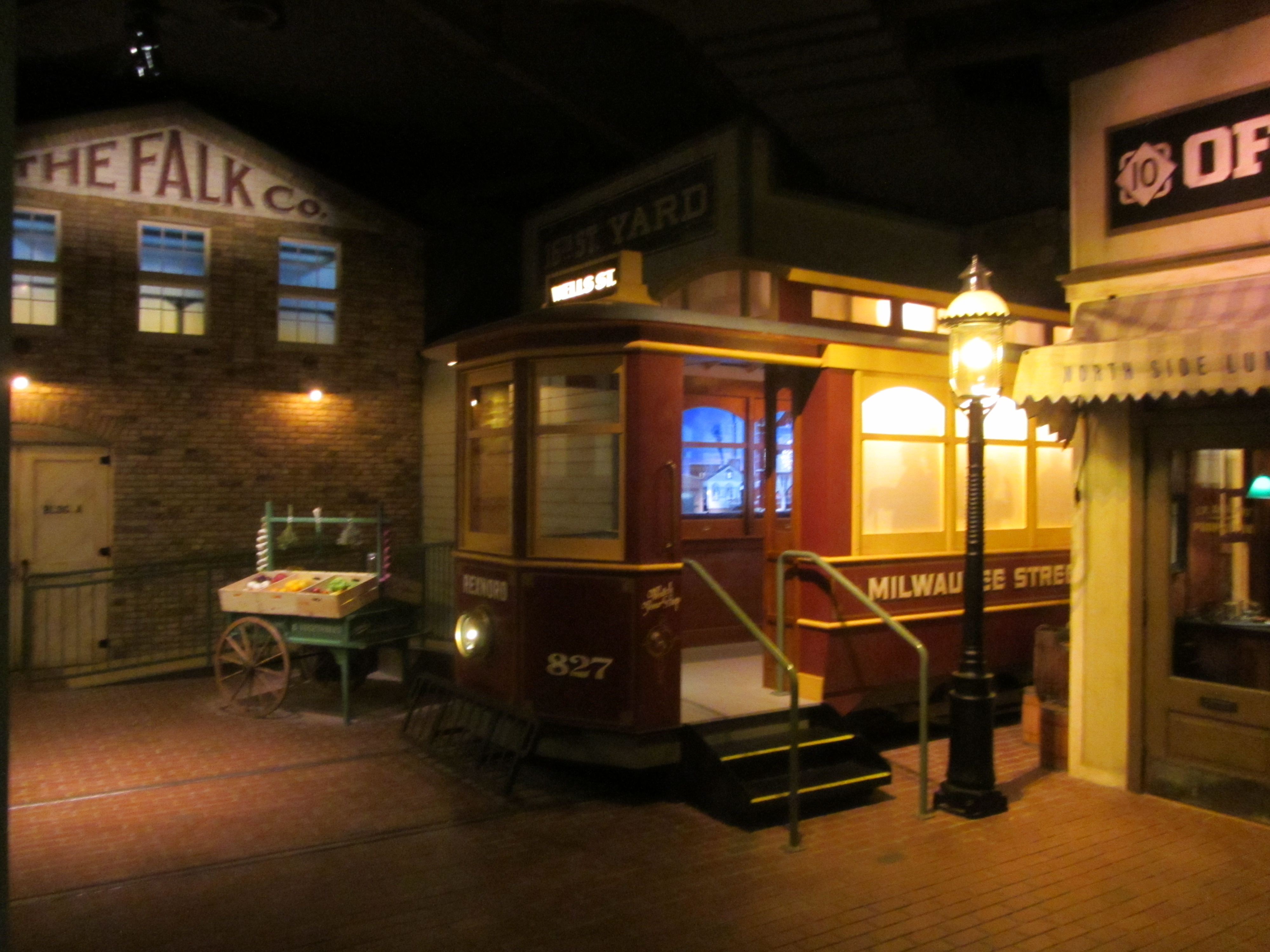 The other side of the streetcar entrance. On the left is the Falk co. building replica, a company that is still in Milwaukee today.